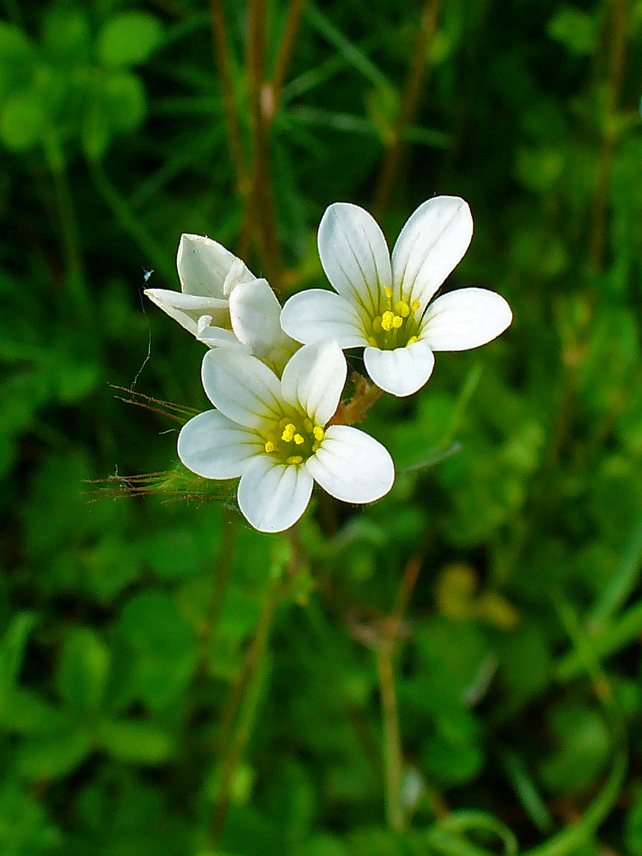 Saxifraga granulata, Saxifragaceae, Meadow Saxifrage, flowers. Karlsruhe, Germany.